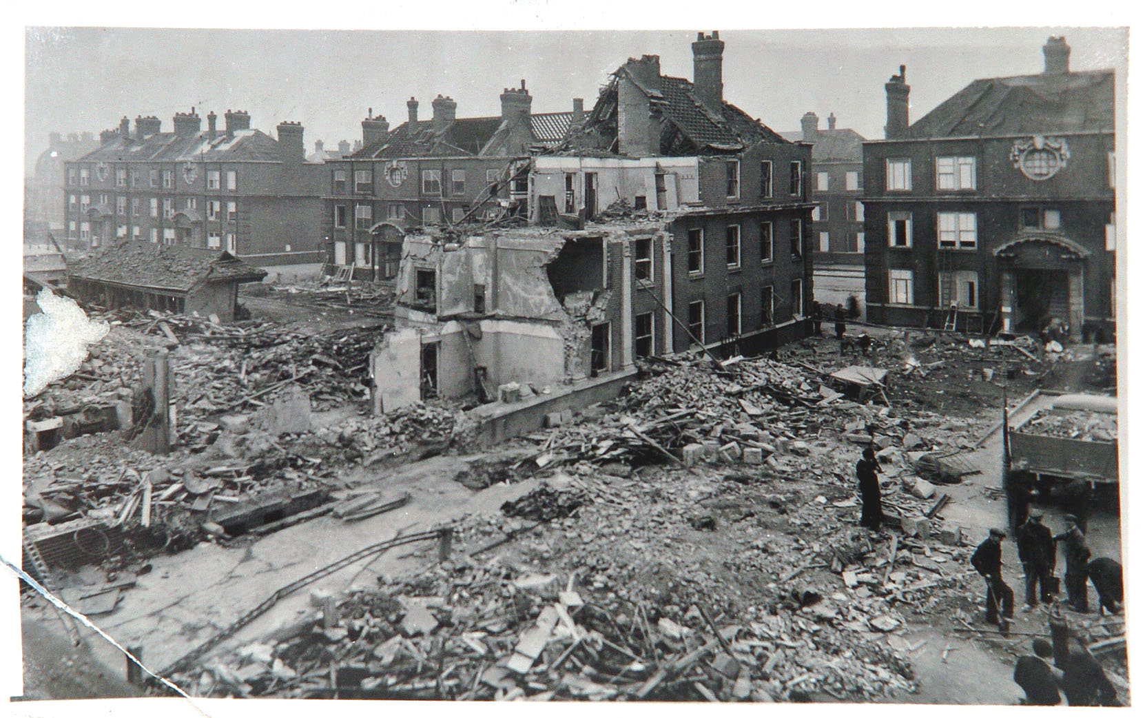 In one of the worst days of World War Two for Peabody, 30 residents were killed when Cleverly estate was hit by a V1 rocket. Read more about the incident here: .uk/2012/02/cleverly-estate-under-attack/